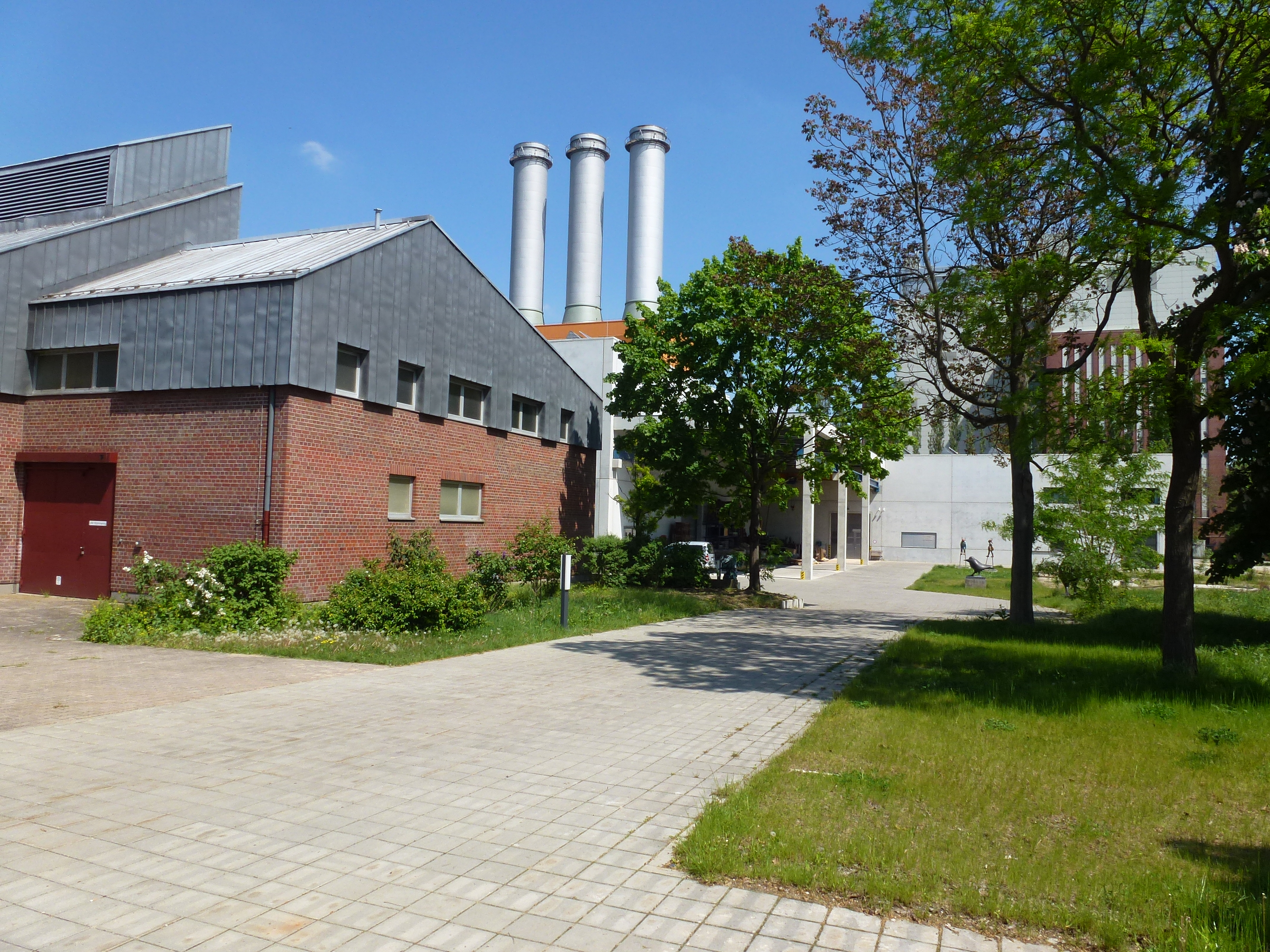 Berlin-Charlottenburg Am Spreebord Hermann Noack Bieldgießerei